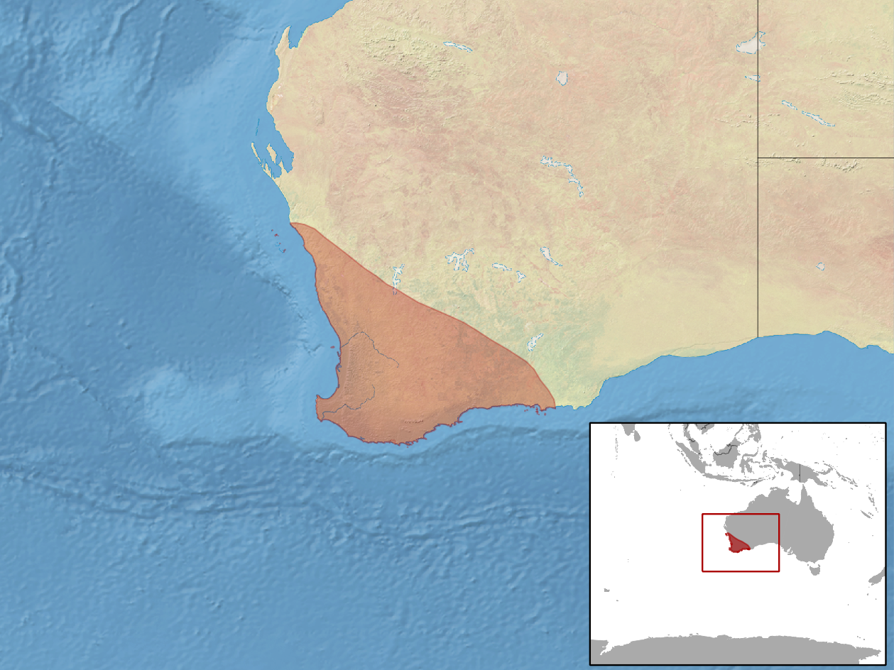 geographic distribution of Egernia kingii